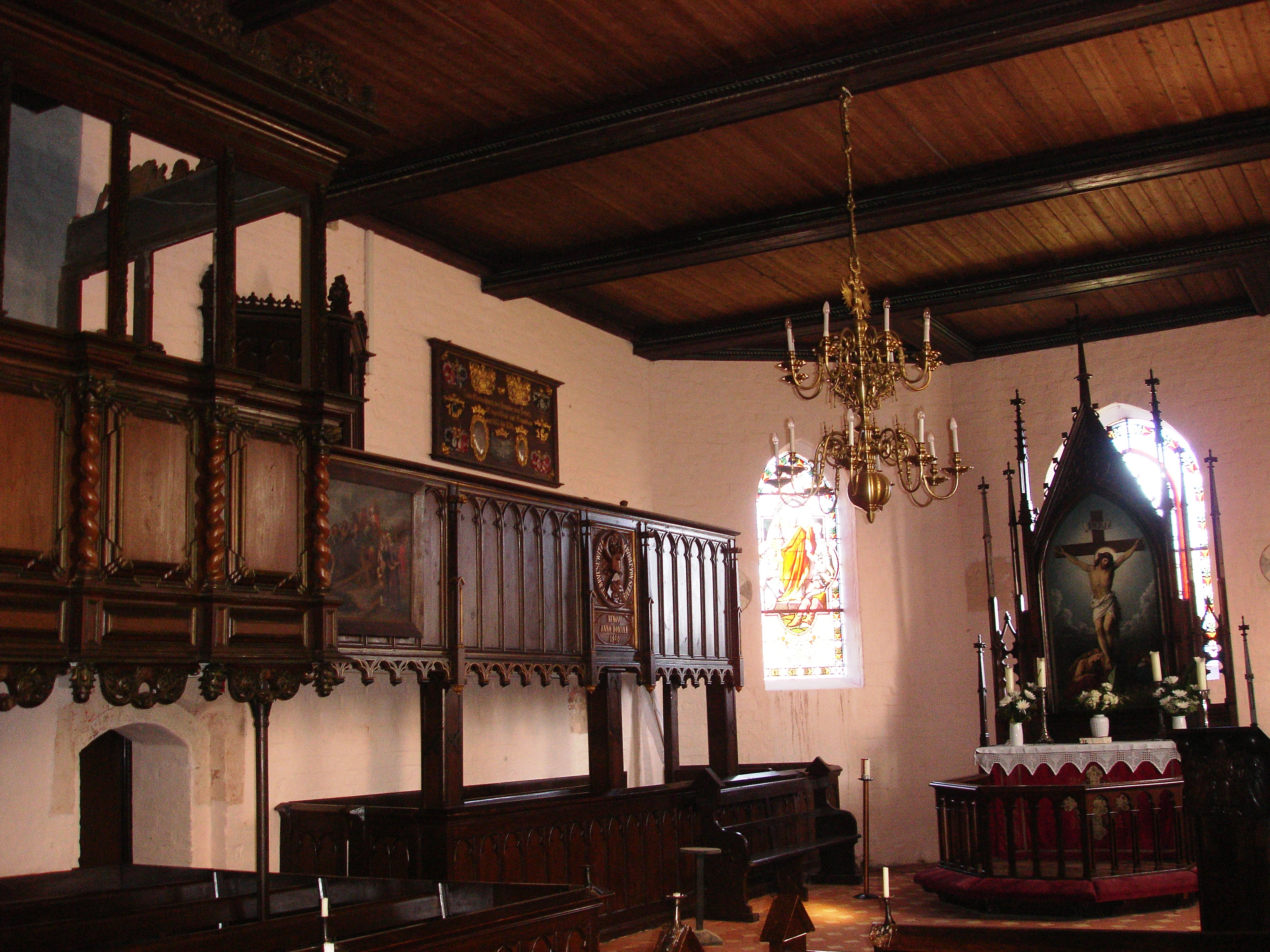 Church in Groß Brütz, district Nordwestmecklenburg, Mecklenburg-Vorpommern, Germany